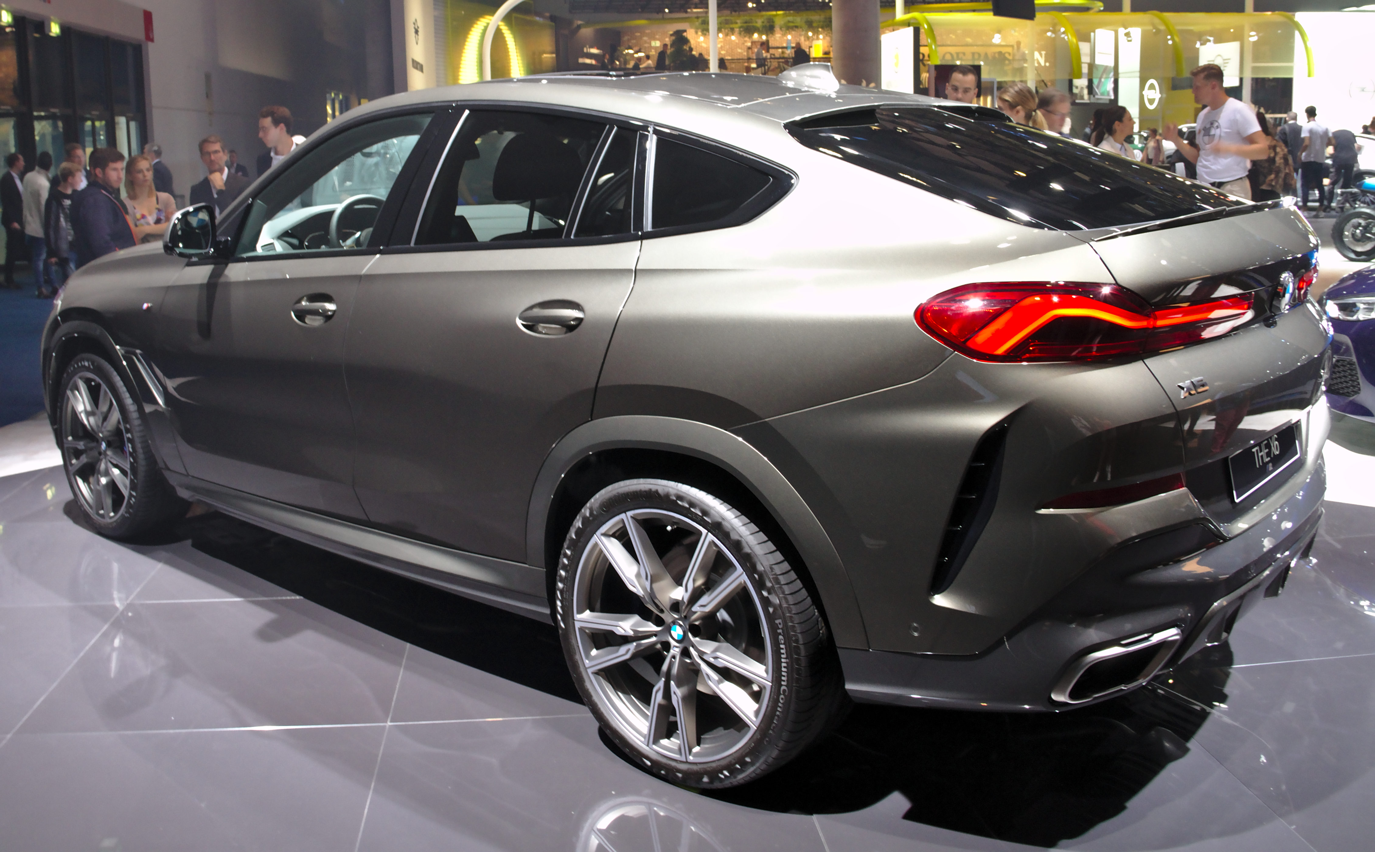 BMW_G06 at IAA 2019